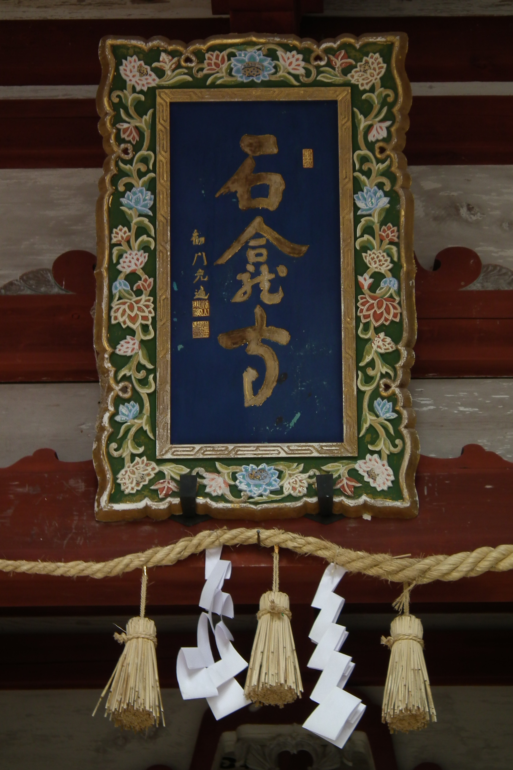 Sekiganji